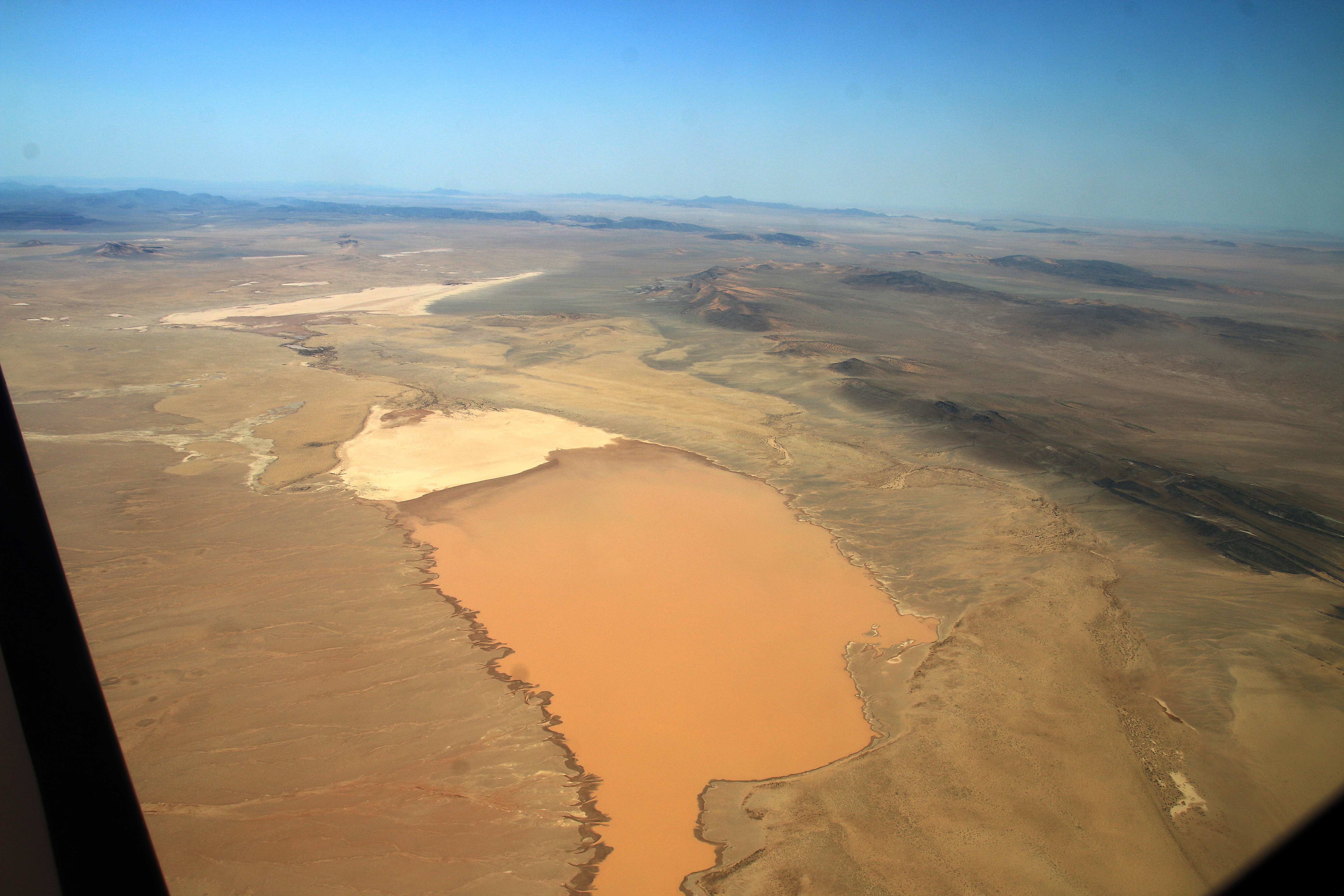 Water in the Diamond Restricted Area / Namibia (2018)